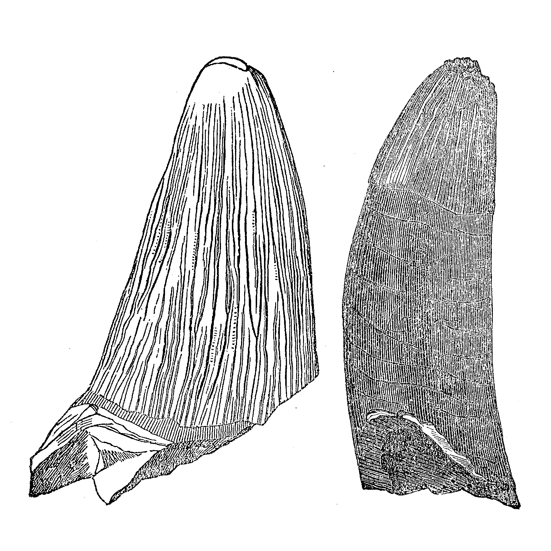 A sketch of two fossil teeth named "Polyptychodon" rugosus, the first described specimens of the giant crocodilian Deinosuchus.